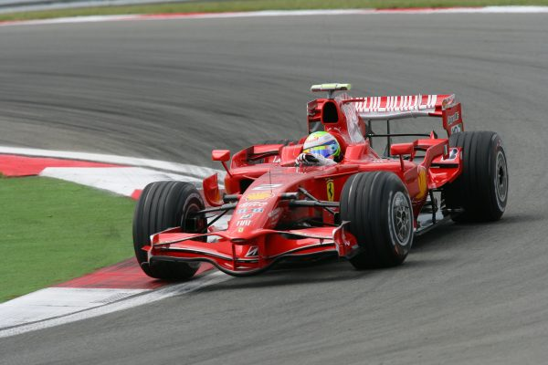 Felipe Massa (Ferrari) during a qualifications for Turkish Grand Prix in 2008 where he secured pole position, and later won the race